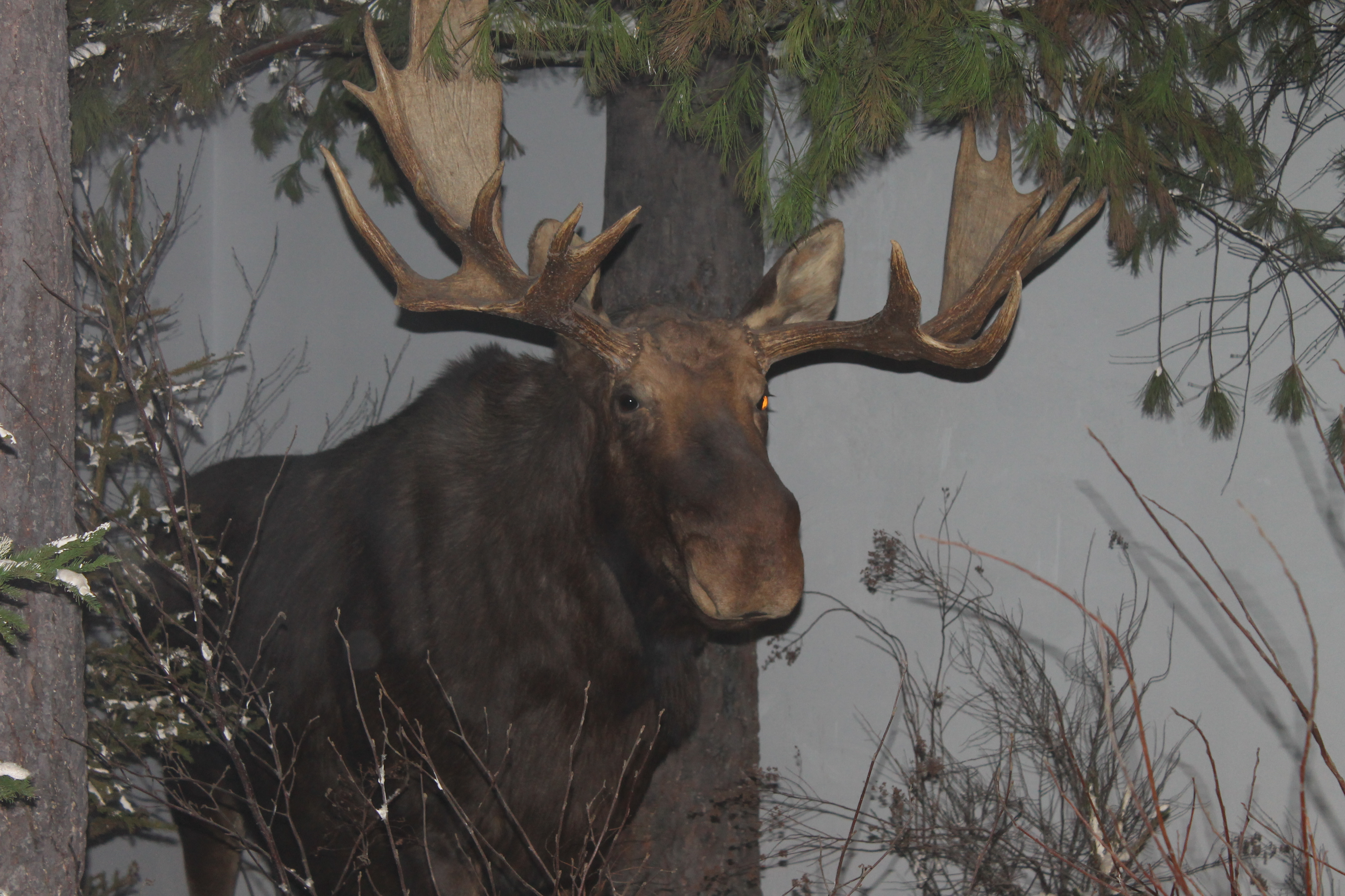 I took photo with Canon camera of moose exhibit at Maine State Museum in Augusta.